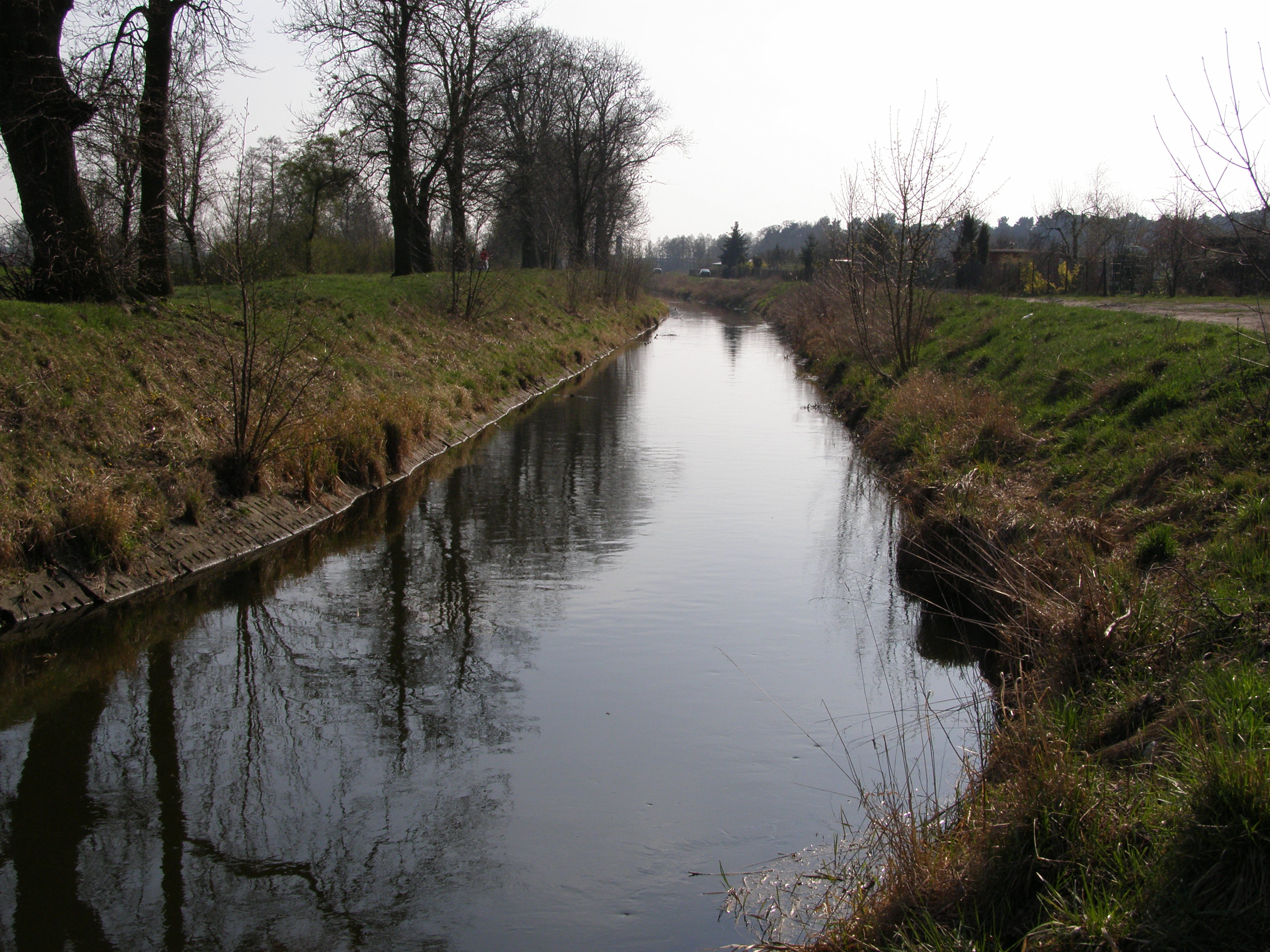 River Gąsawka in Szubin